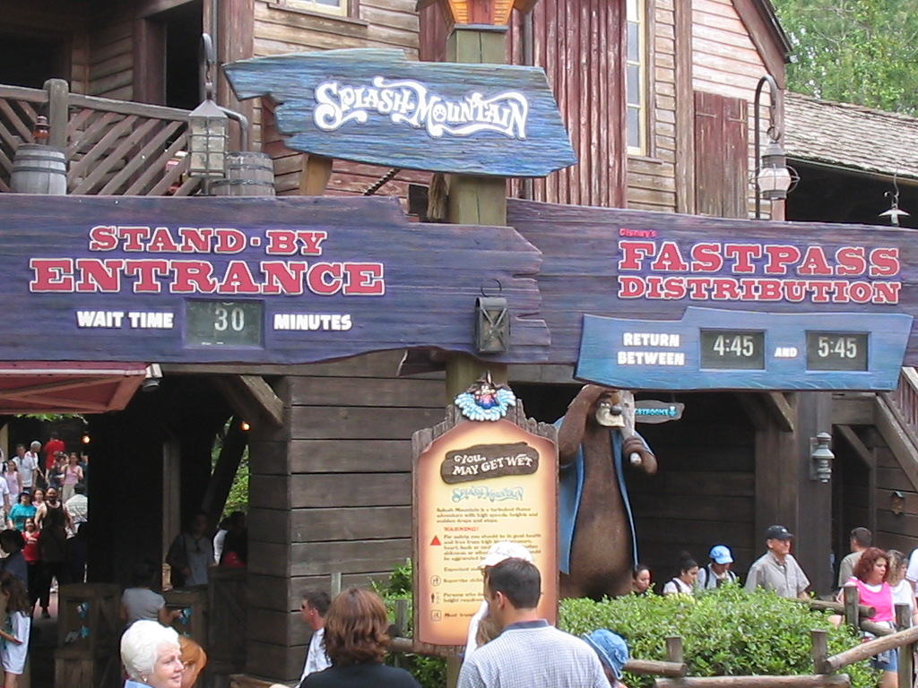 Splash Mountain, Magic Kingdom, Orlando. Waiting time sign, May 2005